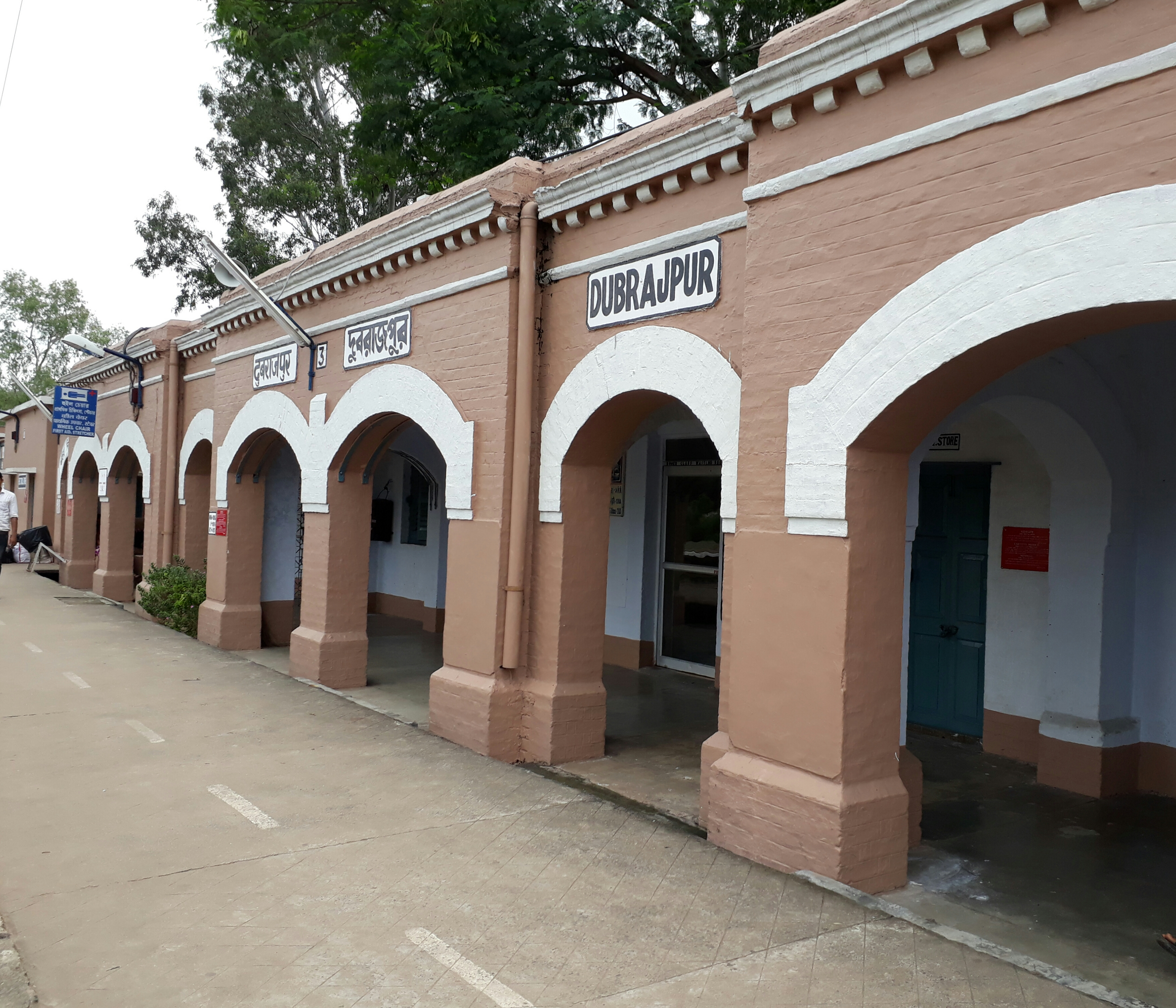 Dubrajpur Railway Station, Andal Sainthia line. Birbhum District